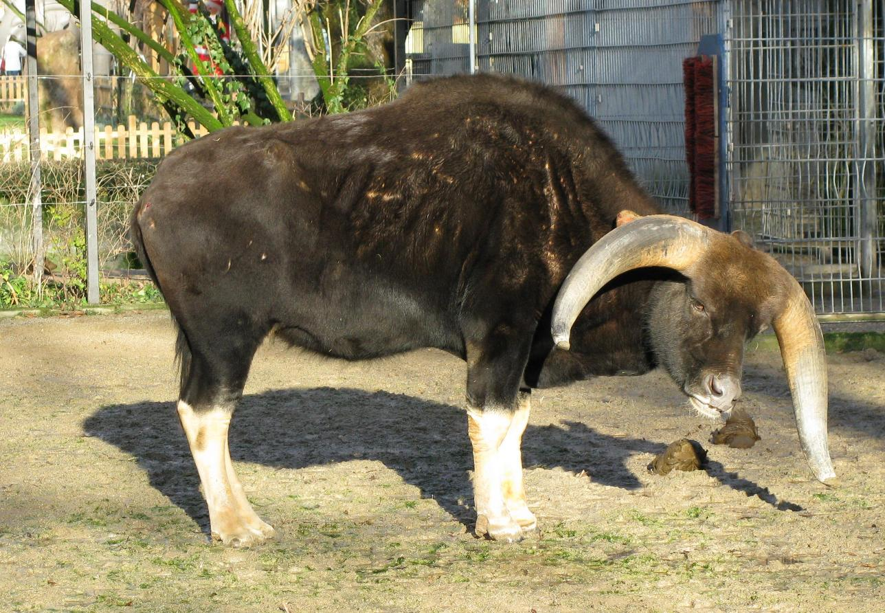 Bos gaurus (Gayal) male at zoo Heidelberg